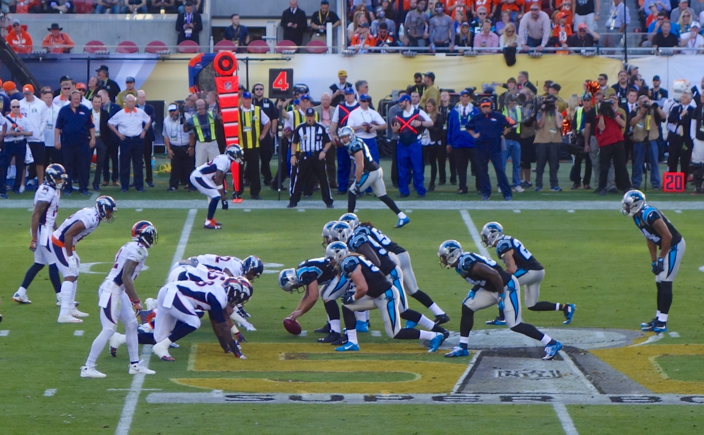 The Carolina Panthers special teams against Denver Broncos during Super Bowl 50